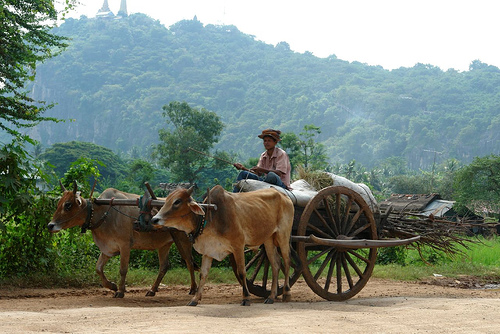 Battambang, Cambodia. Image taken by Charles Fred on flickr. The creator has granted GFDL licensing and permission for use in the wikimedia project.